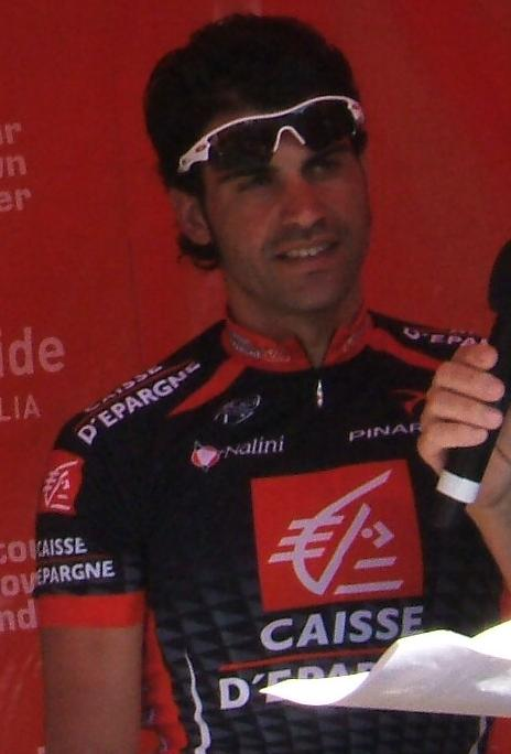 Named cyclist at the en:2009 Tour Down Under team presentation